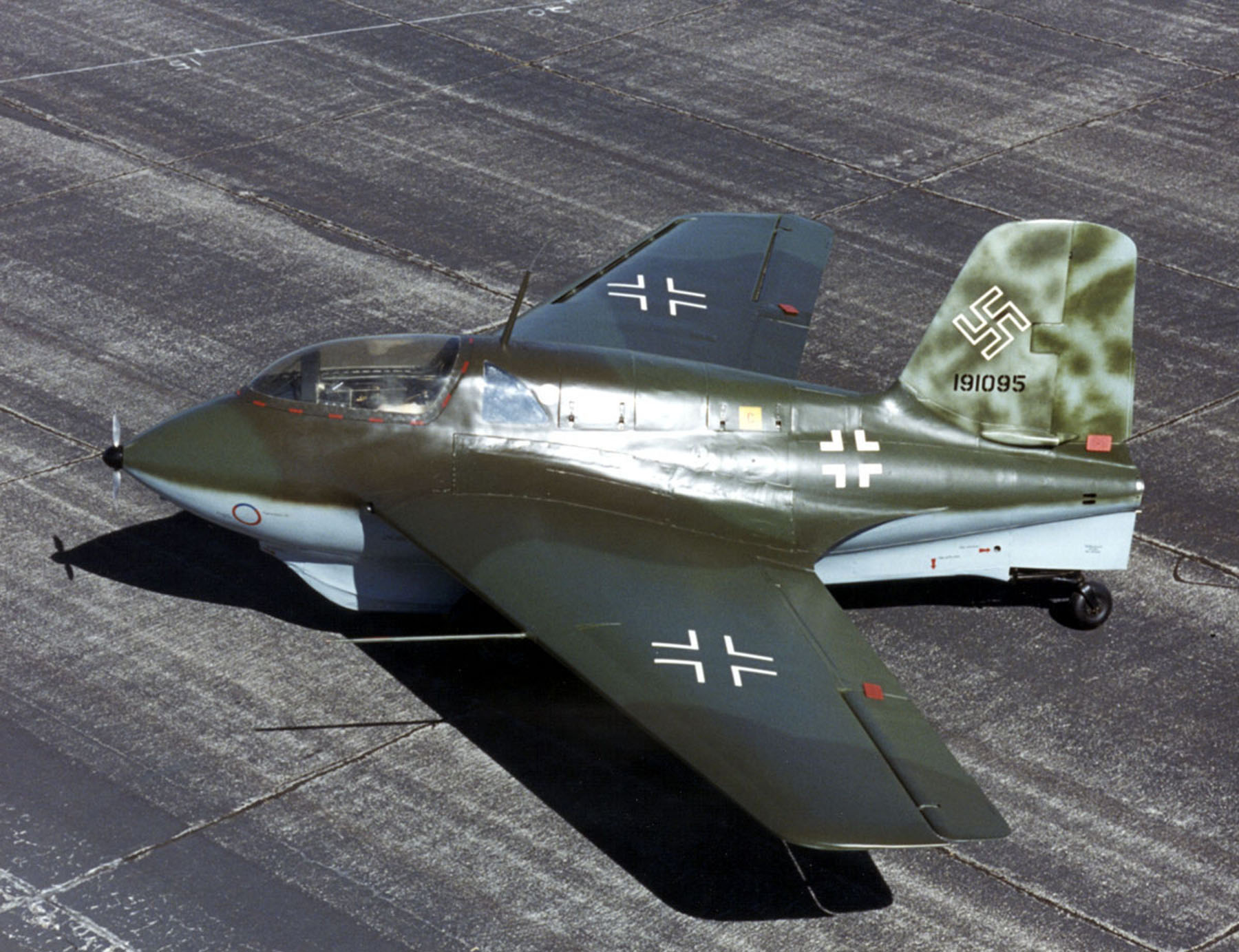 A German Messerschmitt Me 163B Komet rocket-propelled fighter (s/n 191095) at the National Museum of the United States Air Force, Dayton, Ohio (USA).